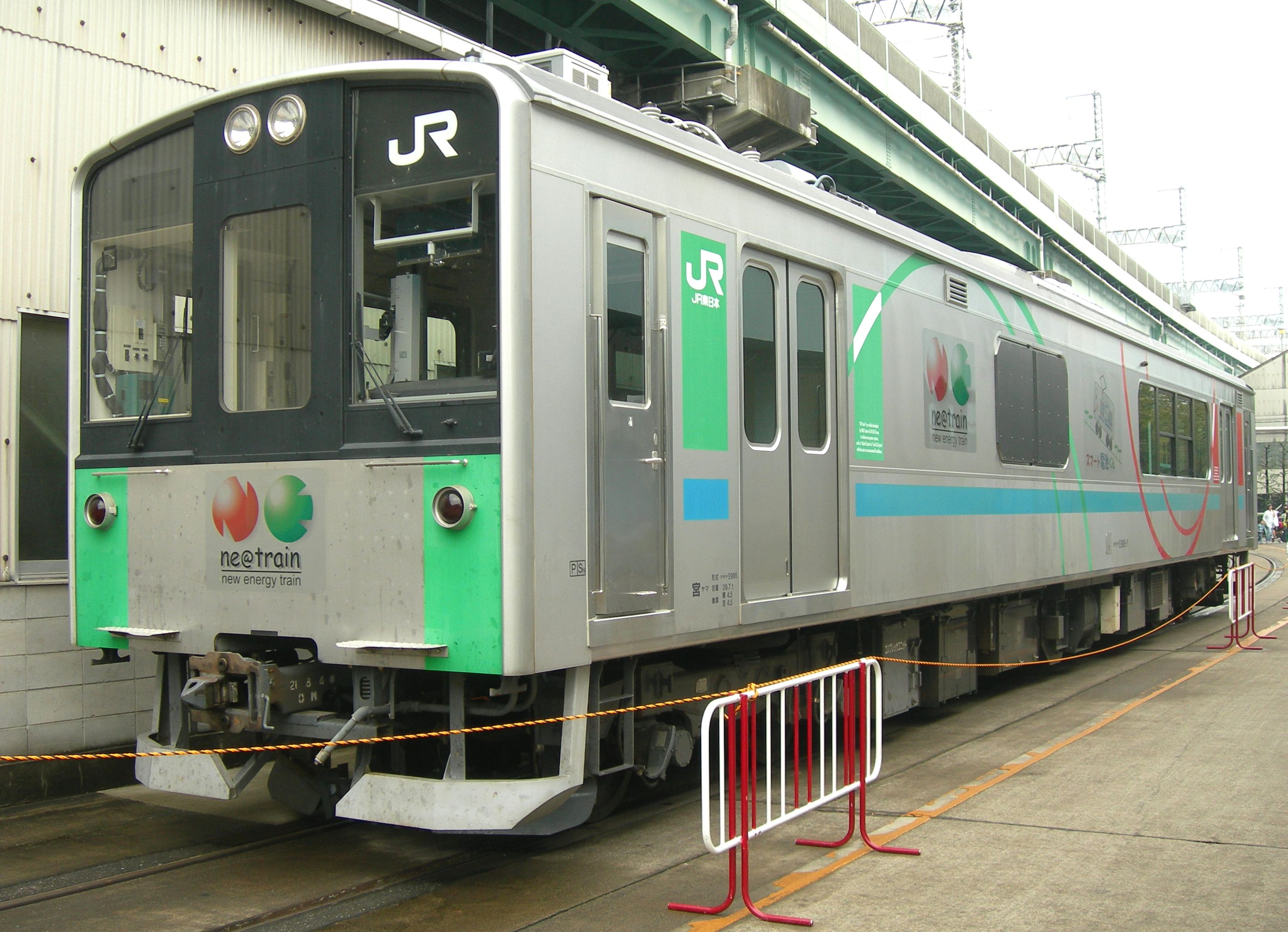 JR East KuMoYa E995-1 "NE Train Smart Denchi-kun" experimental battery/electric hybrid railcar at Omiya General Rolling Stock Center